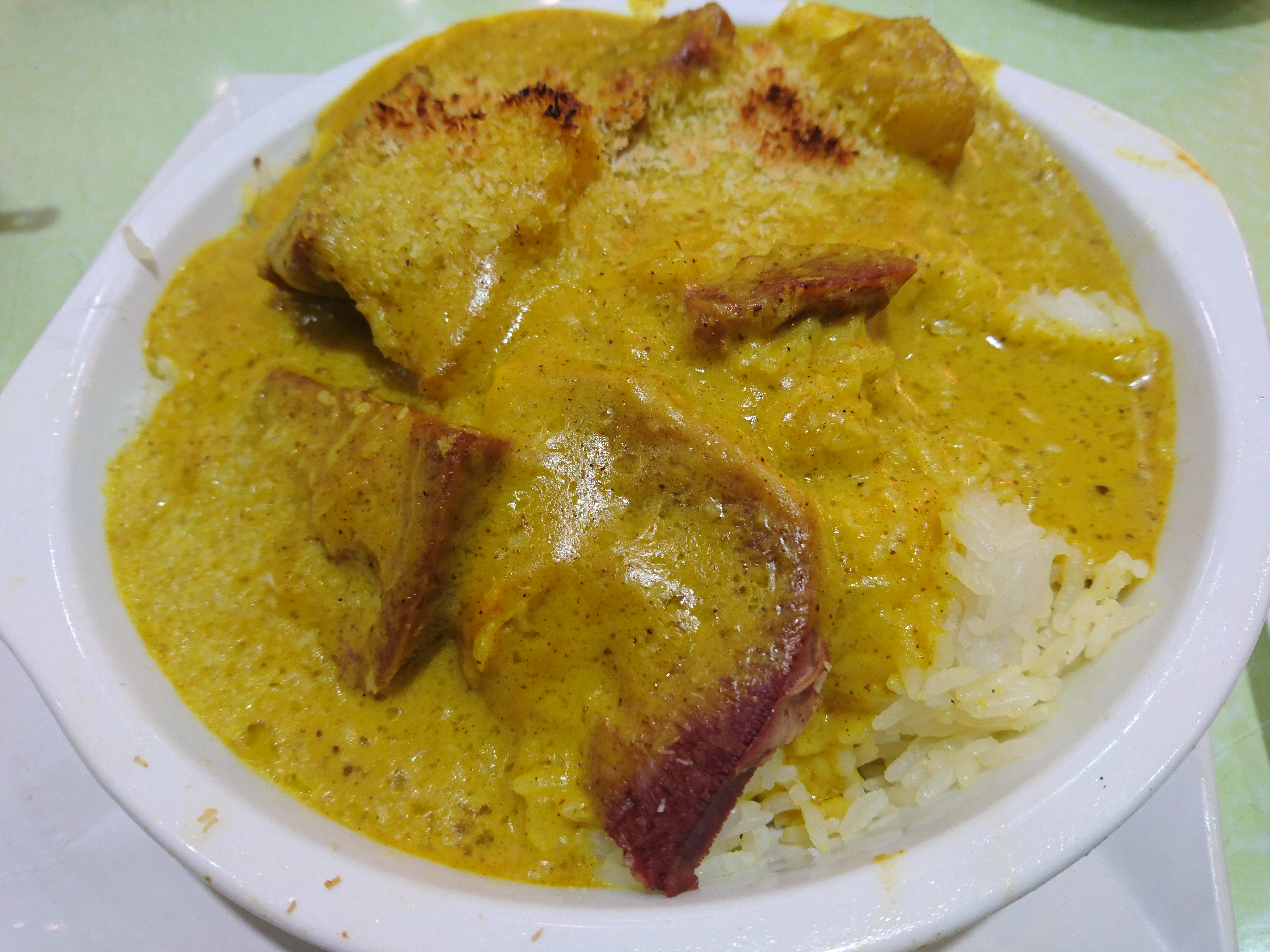 Baked Portuguese Chicken Rice